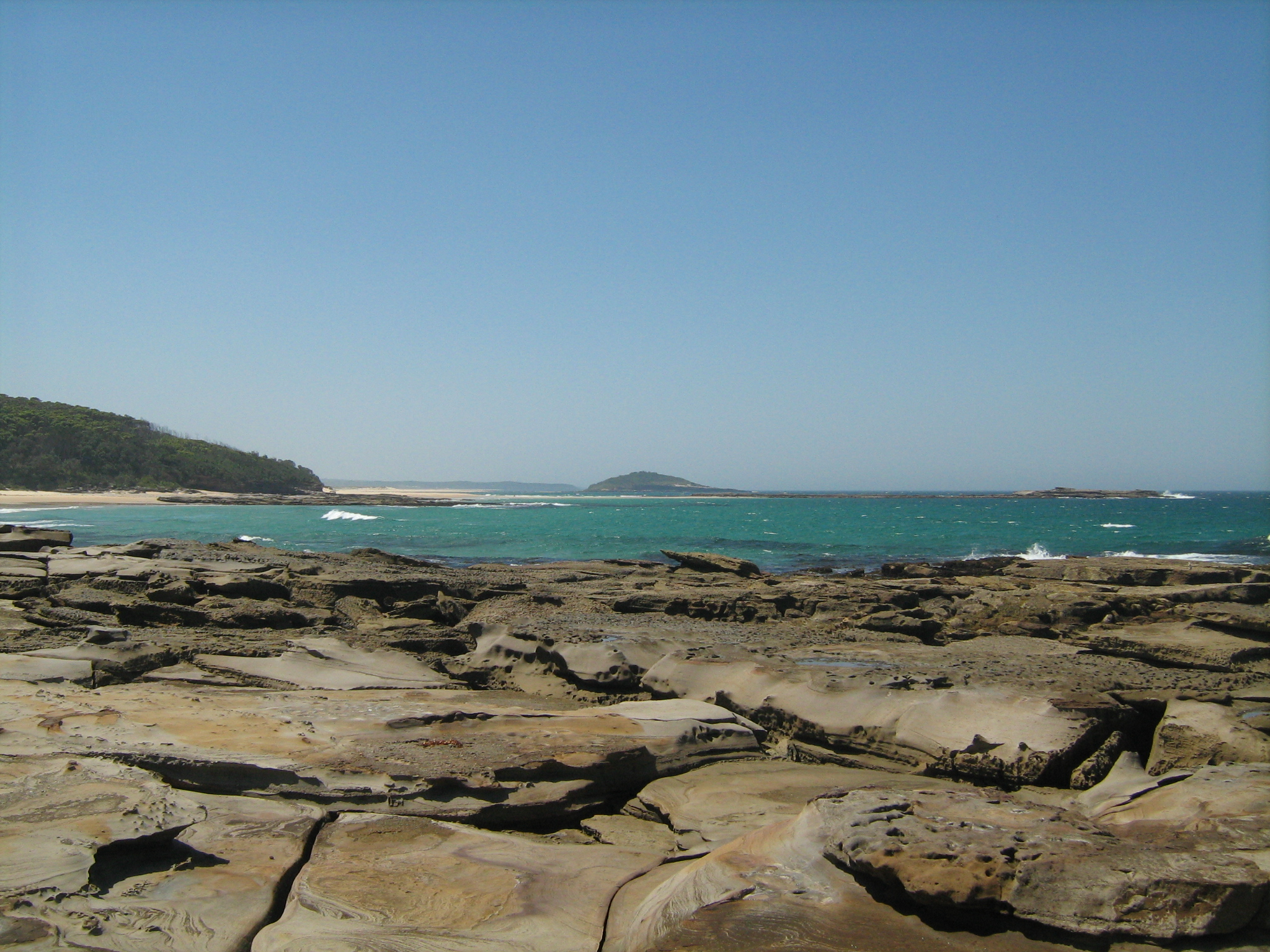 Looking north from Termeil Point towards Lake Tabourie, Meroo National Park, NSW.